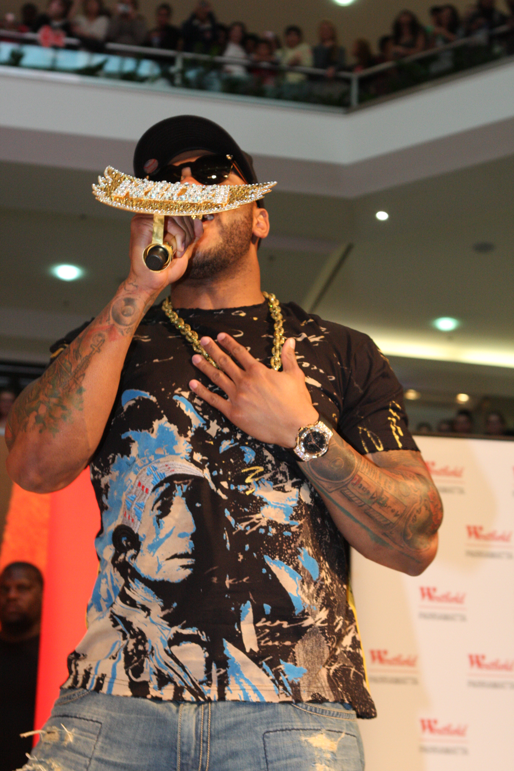 Flo Rida in Sydney.